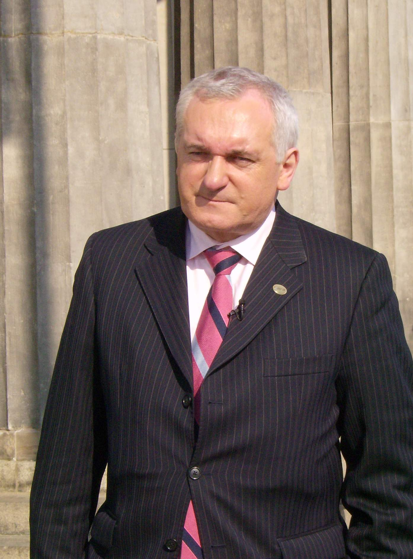 Irish Taoiseach Bertie Ahern in Berlin, 25 May 2007. Taken by User